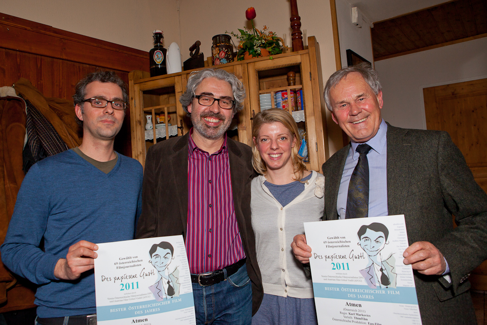 Leon Ilsen (Thimfilm), Anton Maria Aigner, Karin Lischka and Dieter Pochlatko are presented with the film critics' award Der Papierene Gustl for the best Austrian film 2011, Atmen.